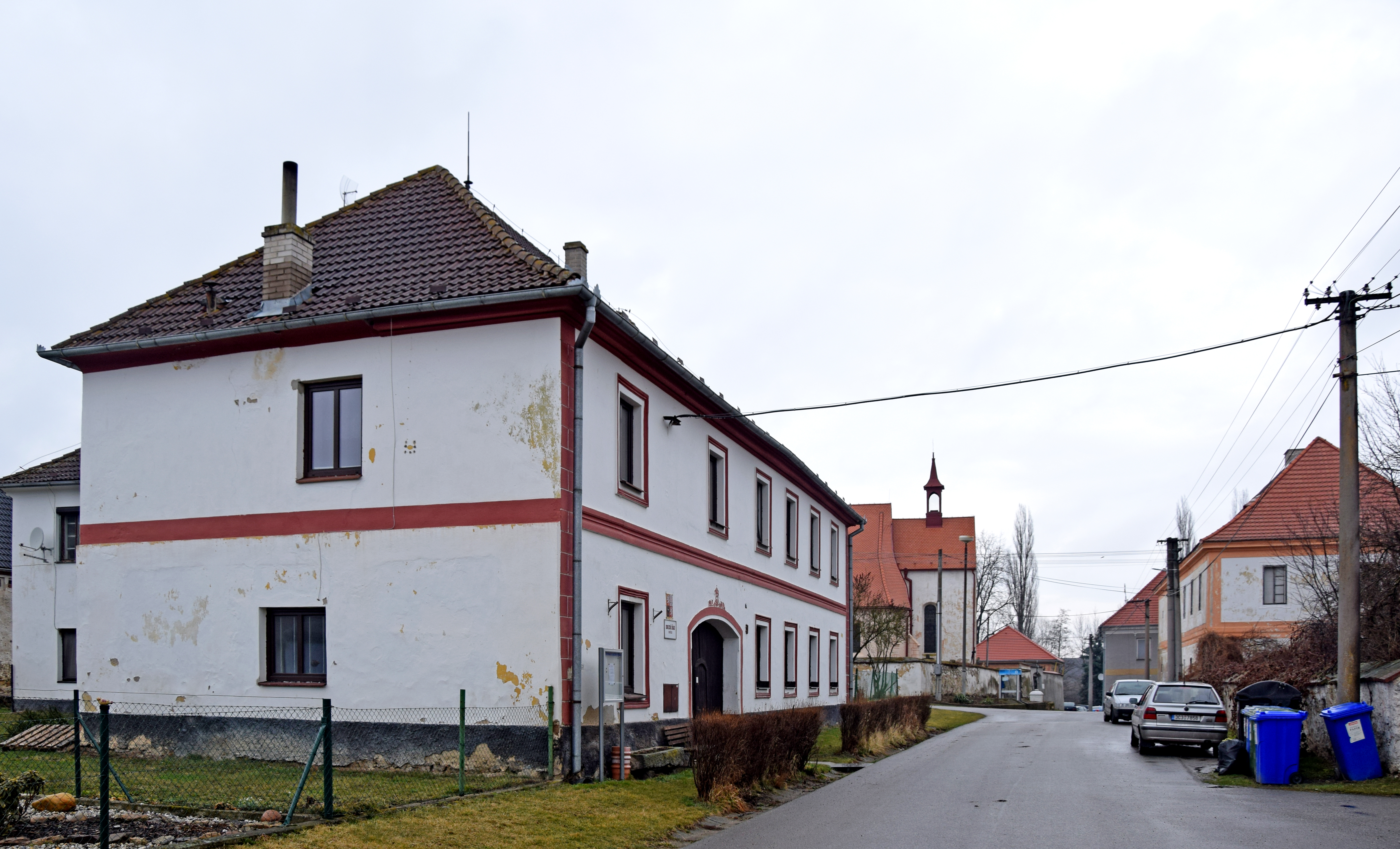 A street in Strýčice, České Budějovice District, the Czech Republic. The building on the left is the village hall.